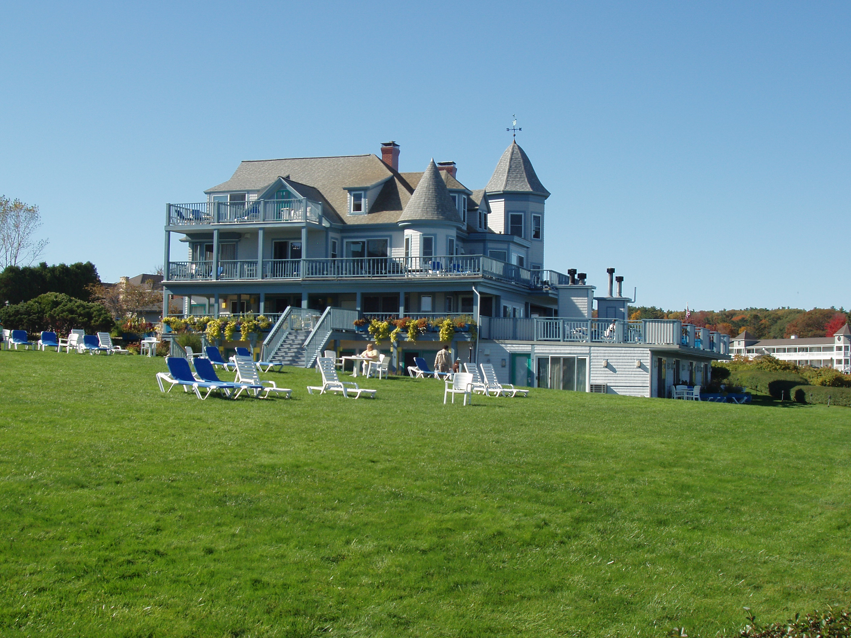 One of the building of the Beachmere Inn in Ogunquit, Maine